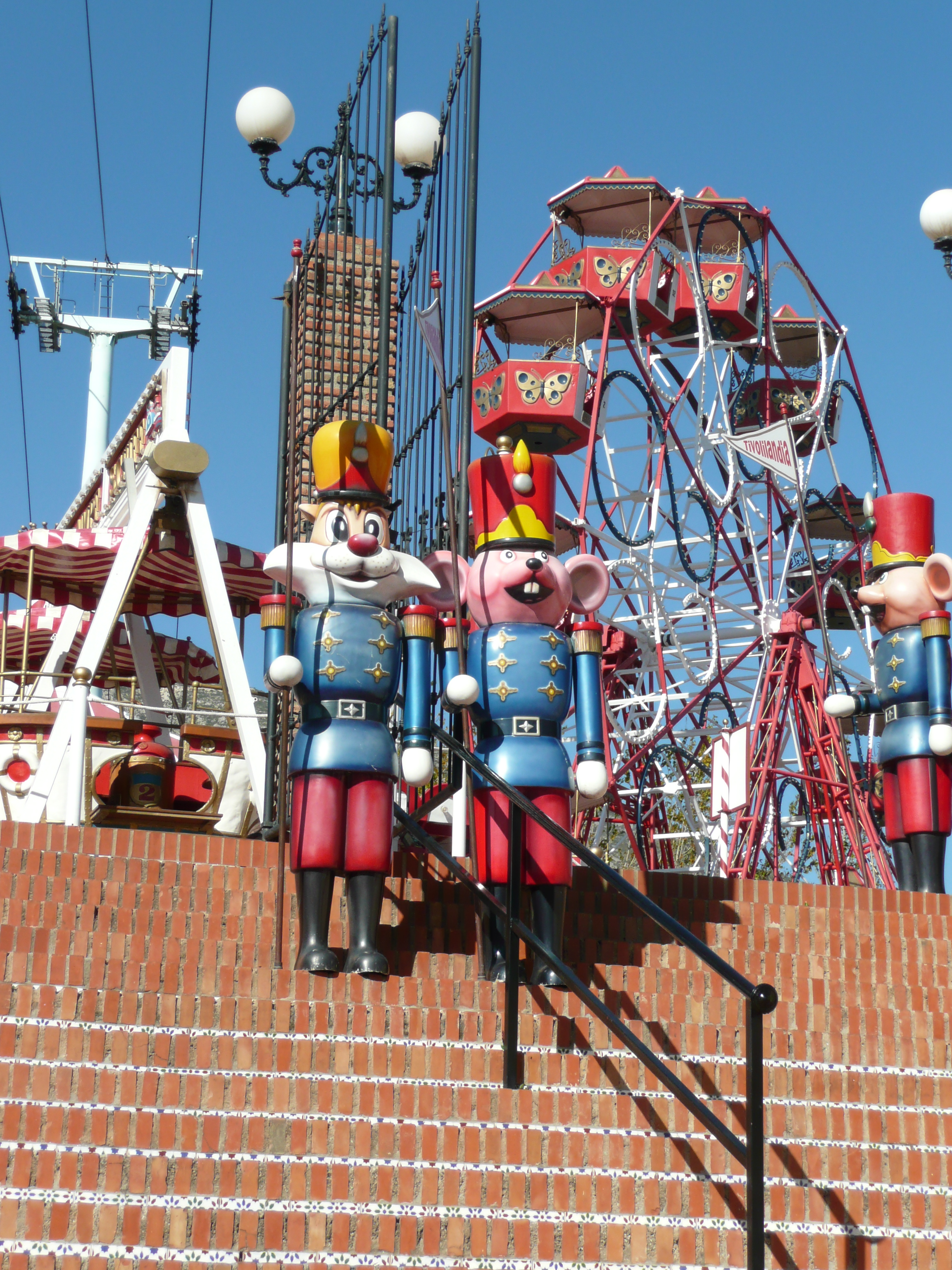 Tivoli World, Benálmadena, Costa del Sol, Spain.